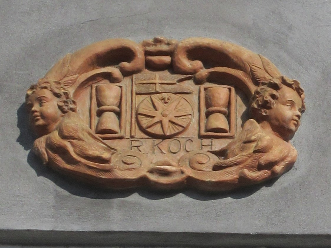 Relief above the entrance at Nyhavn 33 in Copenhagen, Denmark